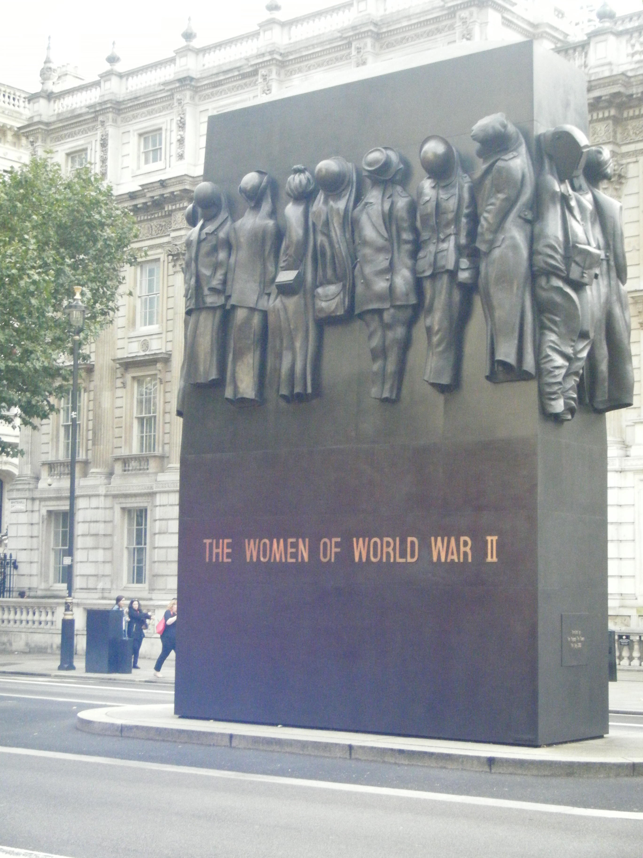 Women of WW2